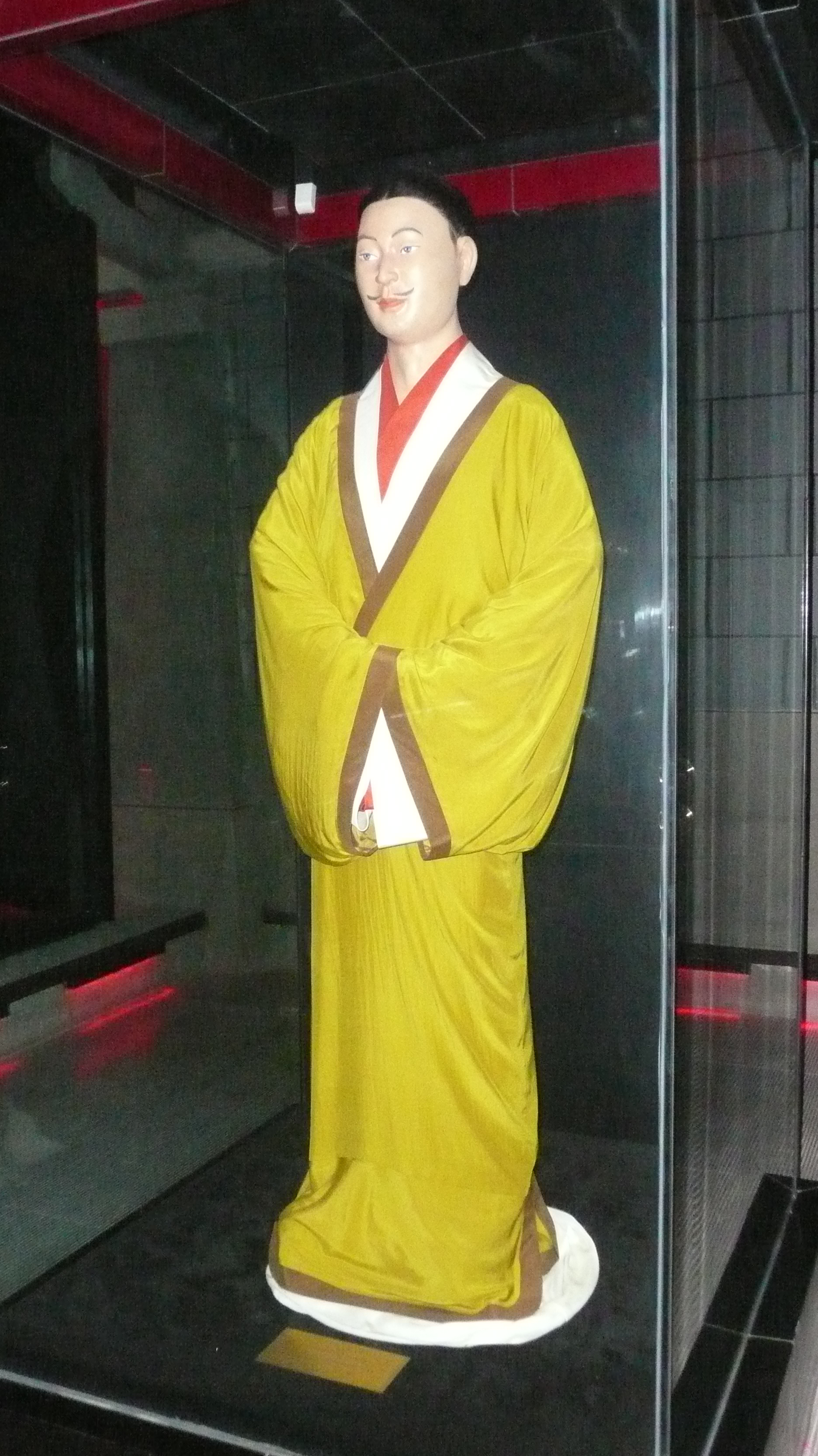 Han Yang Ling - Mausoleum of Jingdi, Han Emperor, Xianyang, near Xi'an